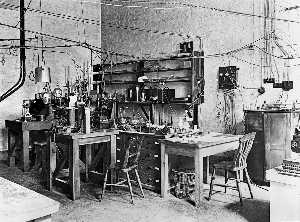 The apparatus used by Ernest Rutherford in his atom-splitting experiments, set up on a small table in the centre of his Cambridge University research room – Cavendish Laboratory. Sir Ernest Rutherford (1871-1937) was born in New Zealand, coming to England to study at Cambridge in 1895, but moving to McGill University, Montreal, Canada, in 1898. There he built upon the work of H Becquerel (1852-1908) and M Curie (1867-1934) to show that radiation was made up of alpha, beta and gamma rays. In 1911, having returned to Britain, he proposed a new structure for the atom, seeing it as a miniature solar system with the nucleus at the centre and electrons orbiting it. He went on to split the atom and, in 1920, suggested that hydrogen nuclei, or protons, were the building blocks of all matter. He received the Nobel Prize for chemistry in 1908.